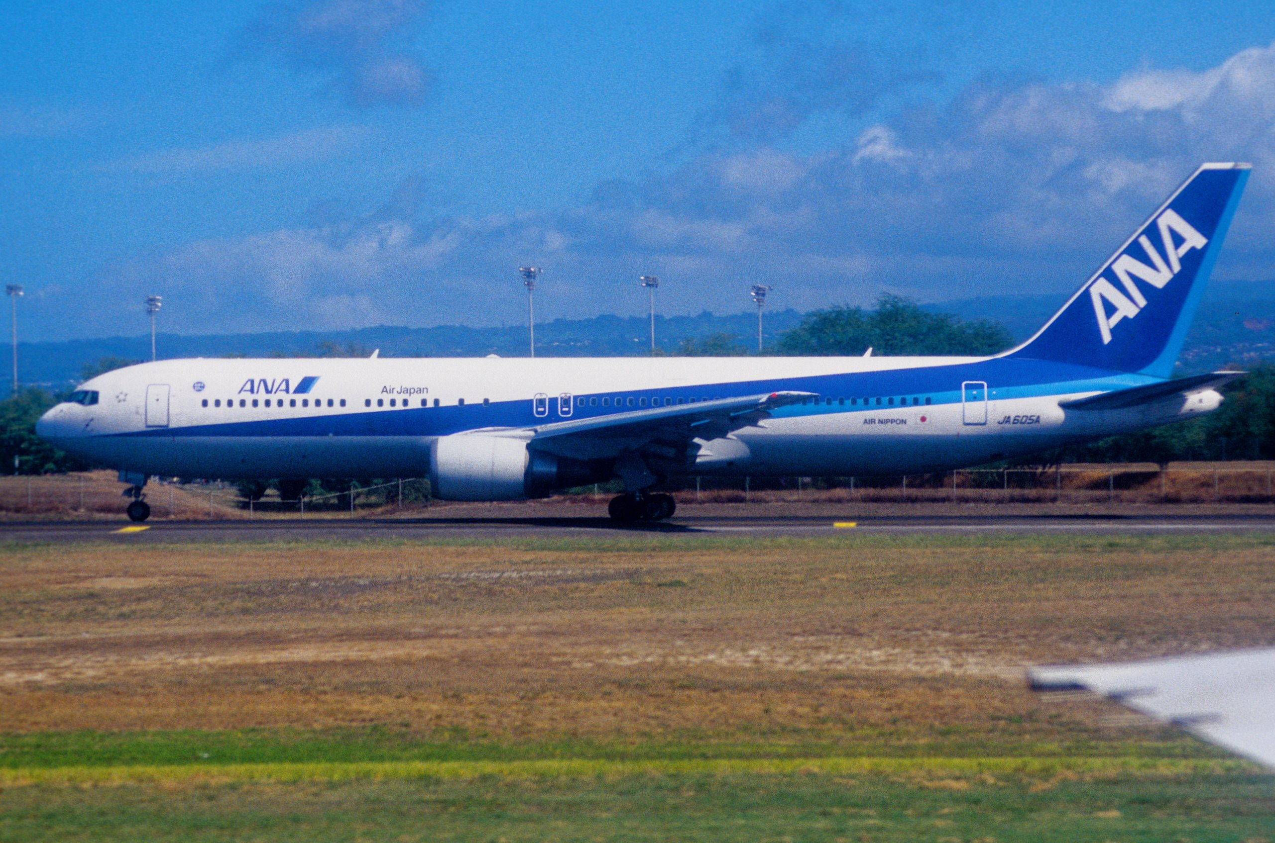 427ap - All Nippon Airways Boeing 767-381ER; JA605A@HNL;03.10.2006